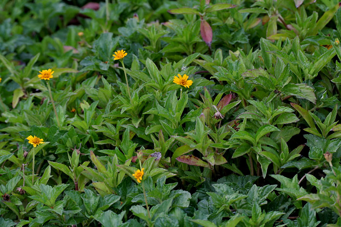 Creeping Daisy or Yellow dots Sphagneticola trilobata in Hyderabad , India.